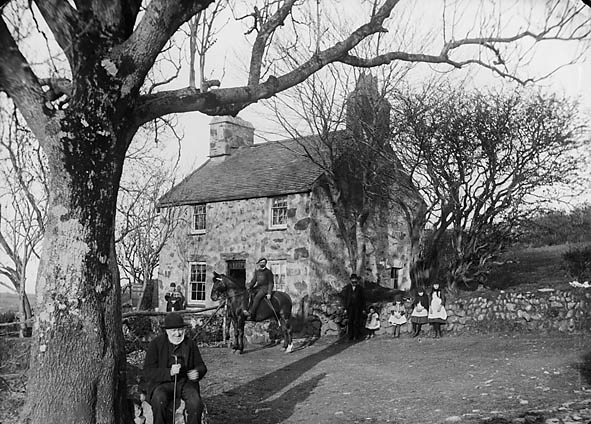 Teitl Cymraeg/Welsh title:Plas Bell, Y Ffor Ffotograffydd/Photographer: John Thomas (1838-1905) Dyddiad/Date: [ca. 1885] Cyfrwng/Medium: Negydd gwydr / Glass negative Maint/Dimensions: 12 x 16.5 cm. Cyfeiriad/Reference:jth02256 Rhif cofnod / Record no.: 3363194 Rhagor o wybodaeth am gasgliad John Thomas yn Llyfrgell Genedlaethol Cymru More information about the John Thomas Collection at the National Library of Wales Mae ffotograffau John Thomas hefyd yn rhan o Broject Europeana Libraries John Thomas' photographs also form part of the Europeana Libraries Project